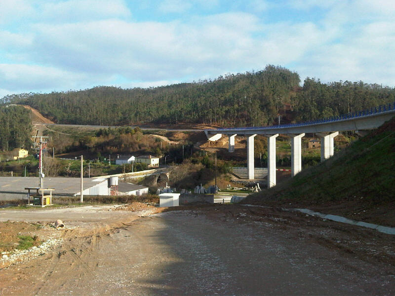 Baleo Bridge - Direction Espasante Via Alta Capacidad de la Costa Norte